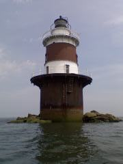 Pecks Ledge Lighthouse in Norwalk, Connecticut.